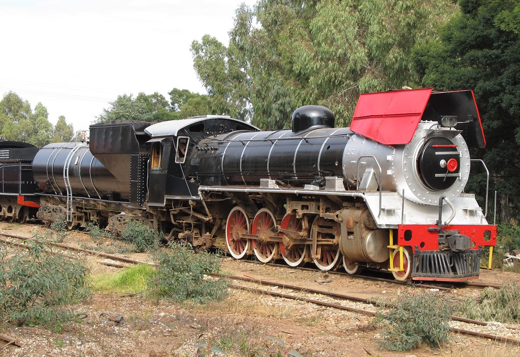 Class 19D-2644 "Wardale" photographed at SANRASM South Site. 06 June 2011